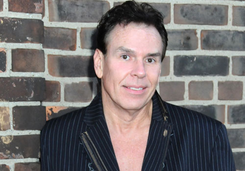 Mark S Berry, Attack Media Group's Producer